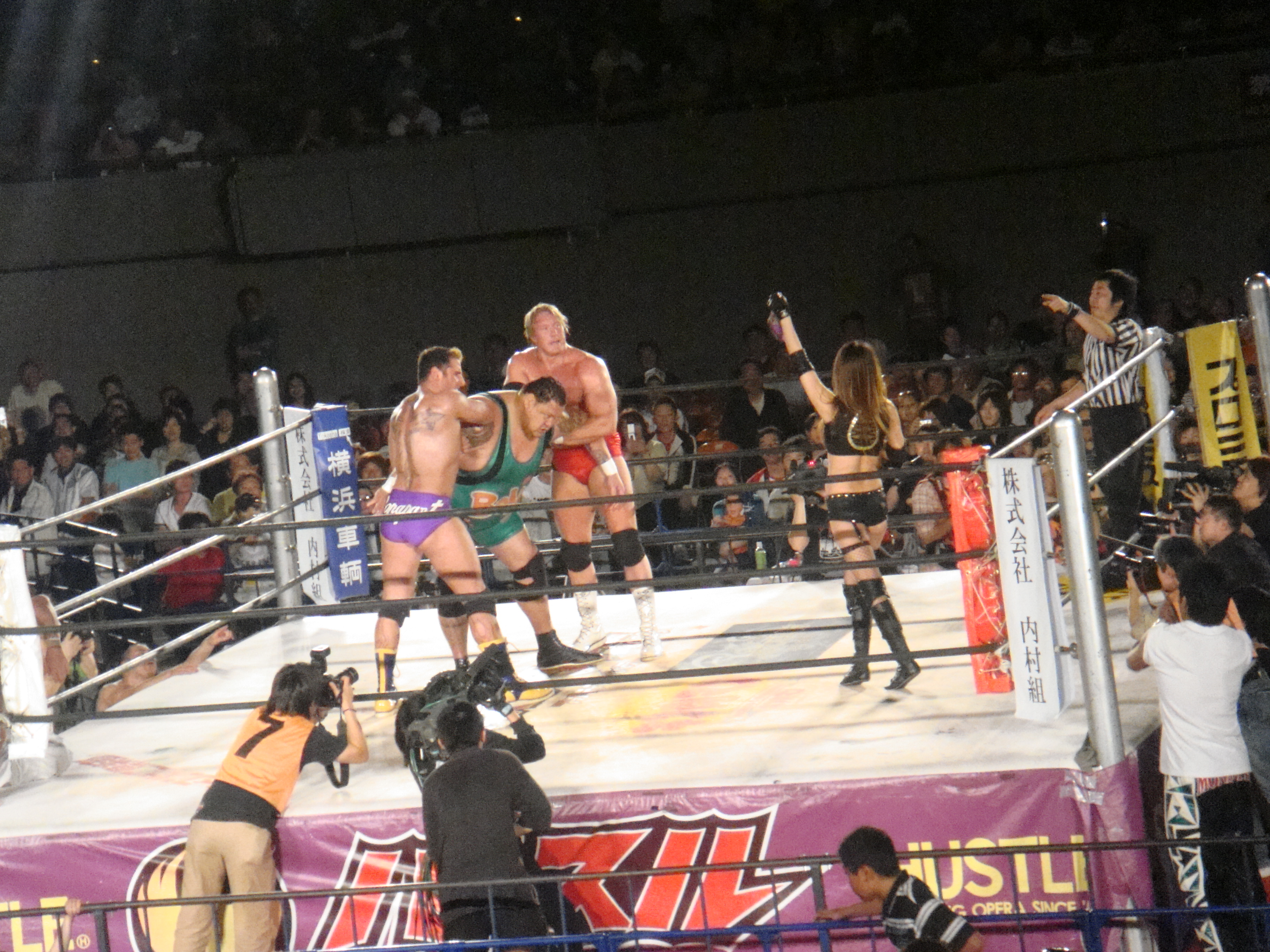 A Hustle match at Yokohama Cultural Gymnasium on 4 May 2009. On the ring, from left, are René Bonaparte, Bono-kun, Lance Cade, Françoise Hirota and referee Daisuke Noguchi.